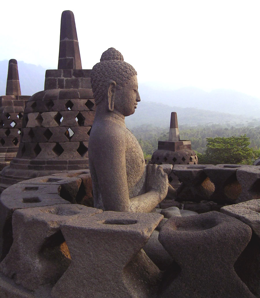 The perfect Buddha at the Borobudur (Java, Indonesia), ca. 750 - 850 AD